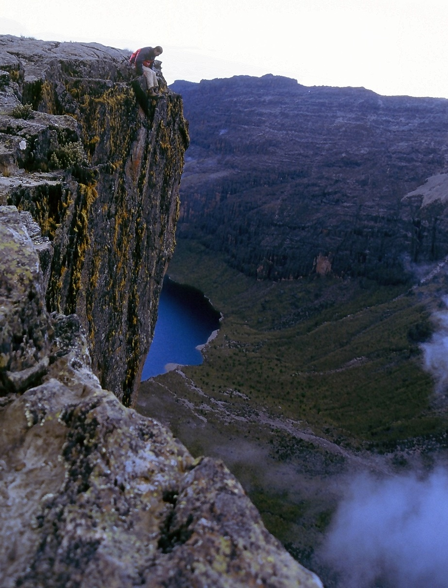 The Temple on the Chigoria route of Mt Kenya, Lake Michaelson is in the background.